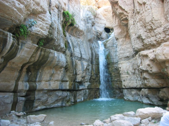 Nahal arugot in israel